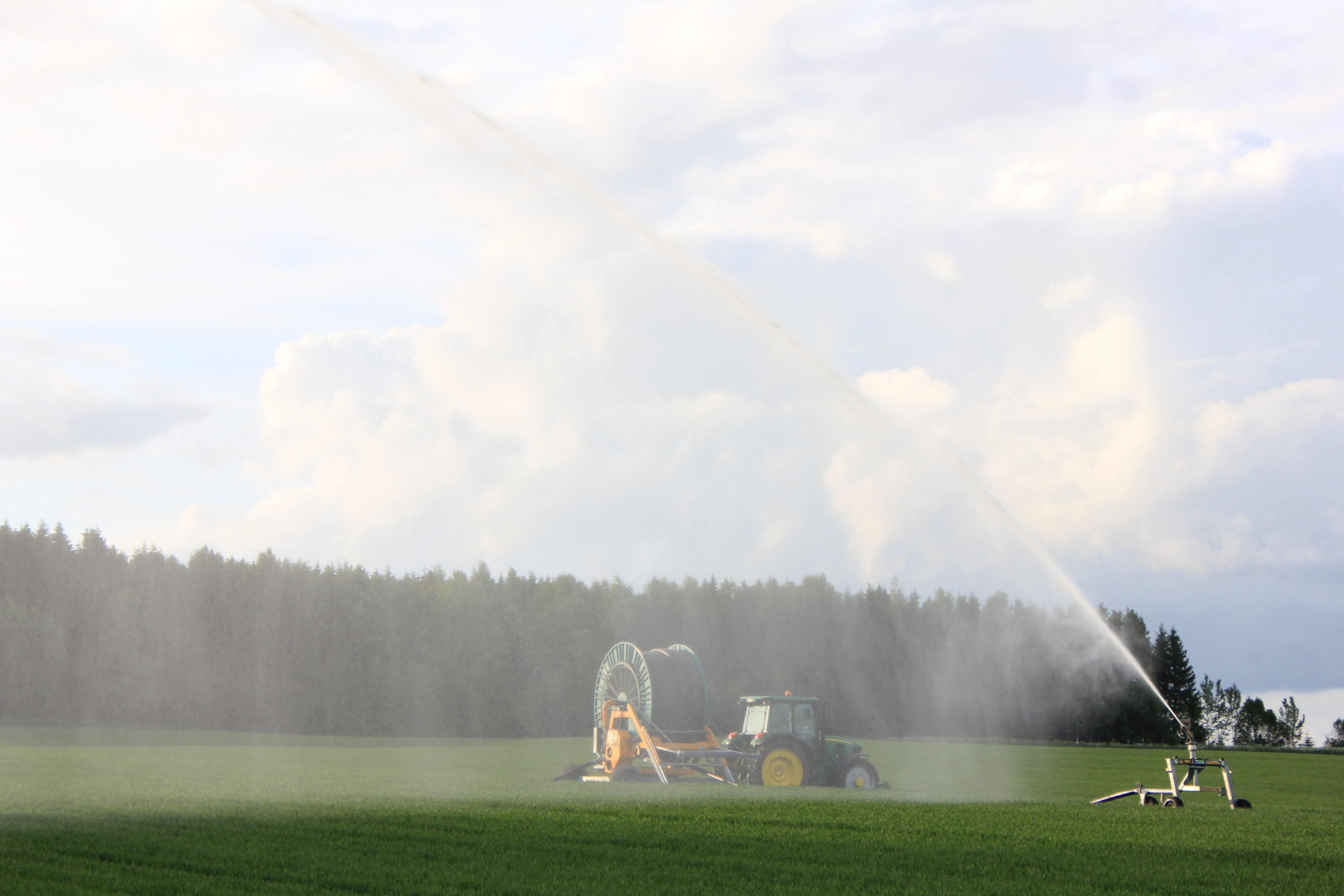 Watering system at Helgøya, Norway